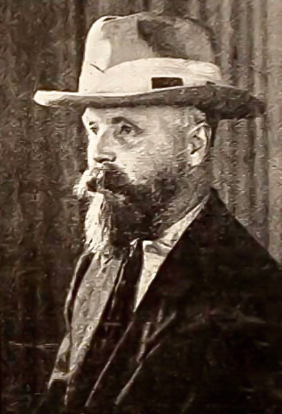 Screenshot of photographic portrait of Frederick Burlingham published in Motion Picture News (New York), October 8, 1921, p. 1892; a bearded Burlingham depicted in quarter profile wearing a broad-brimmed hat, coat and necktie. The caption accompanying this image refers to "Dr. Frederick Burlingham". Unless Burlingham by 1921 received an honorary doctoral degree from some university, there is no evidence that he completed any academic work to obtain such a degree. More likely, he adopted the professional title "Dr." or accepted it in his introductions as a lecturer based on his years of practical experience studying the "natural wonders" and cultures he encountered and filmed in his travels.